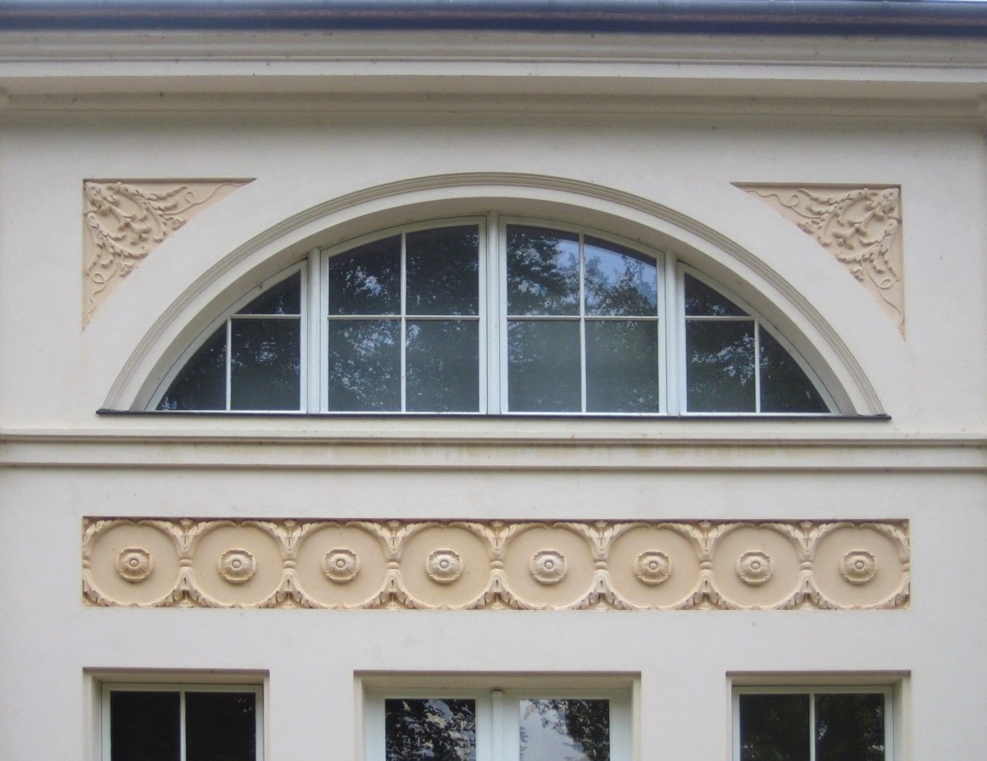 The palace in Paretz, a village near Potsdam, Germany. Reverse side. Detail.